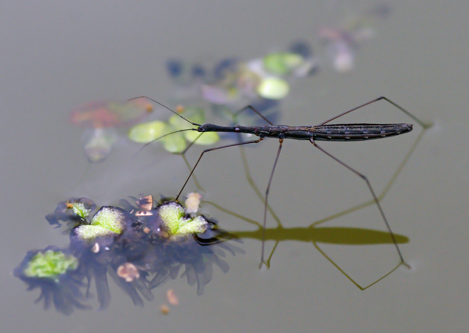 The bug Water measurer (Hydrometra stagnorum) on the surface of a pond. In front some thalli of the floating liverwort Ricciocarpos natans.